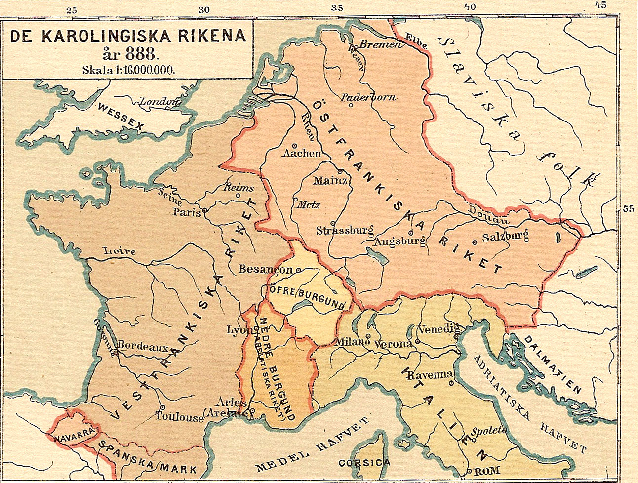 Historic map (swedish) of the karolin countries year 888 ad.